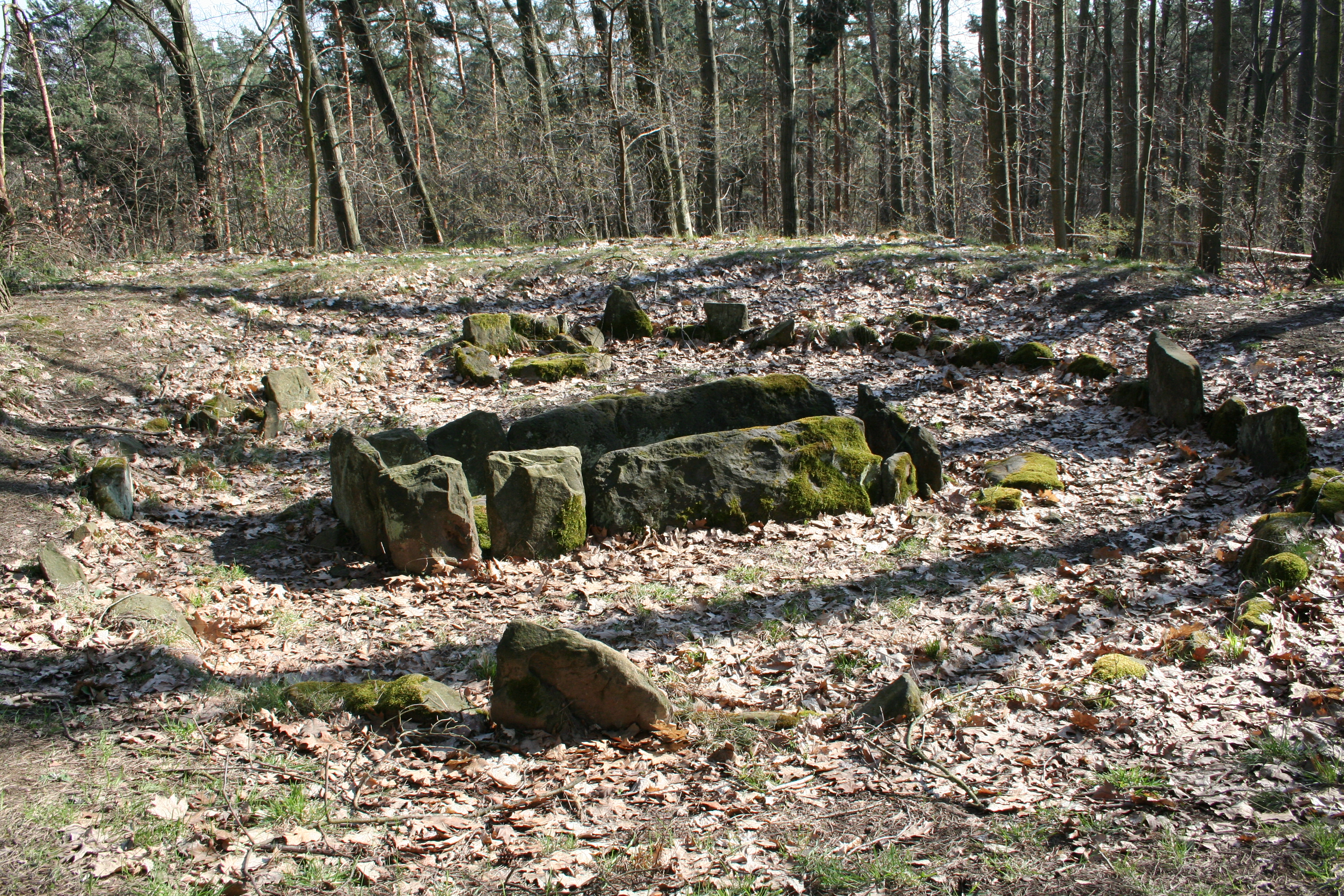 Burial mound 27 with reconstructed cist graves at Dölauer Heide, Halle (Saale)